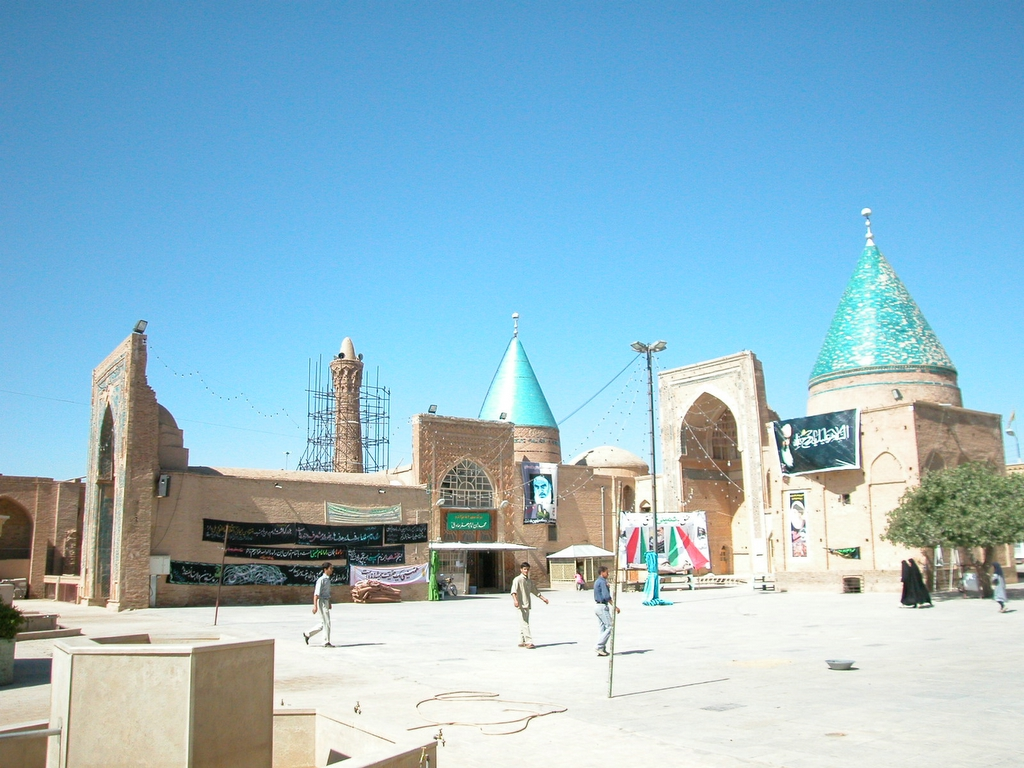 Tomb of Abû Yazid al-Bistami, Shahrood, Iran